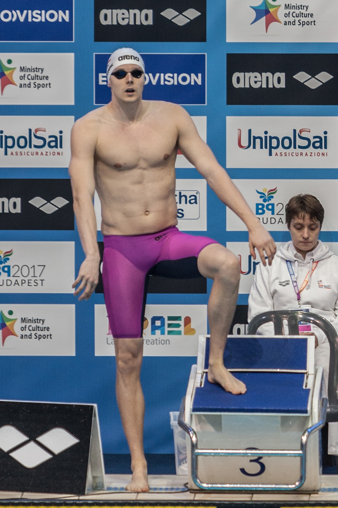 Swimmer Konrad Czerniak at the 2015 European Short Course Swimming Championships in Netanya